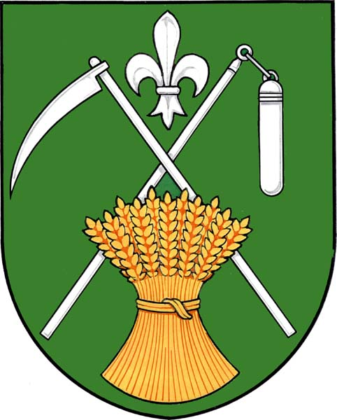 Municipal coat of arms of Zahnašovice village, Kroměříž District, Czech Republic.